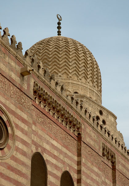 Al-Ashraf Barsbay Mosque and madrasah. Cairo. Egypt